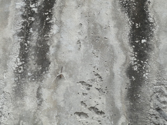 On the stone fence to the Hidalgo Park, a part, were people believe the Virgin of Guadalupe appeared.